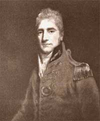 New South Wales' Governor Lachlan Macquarie